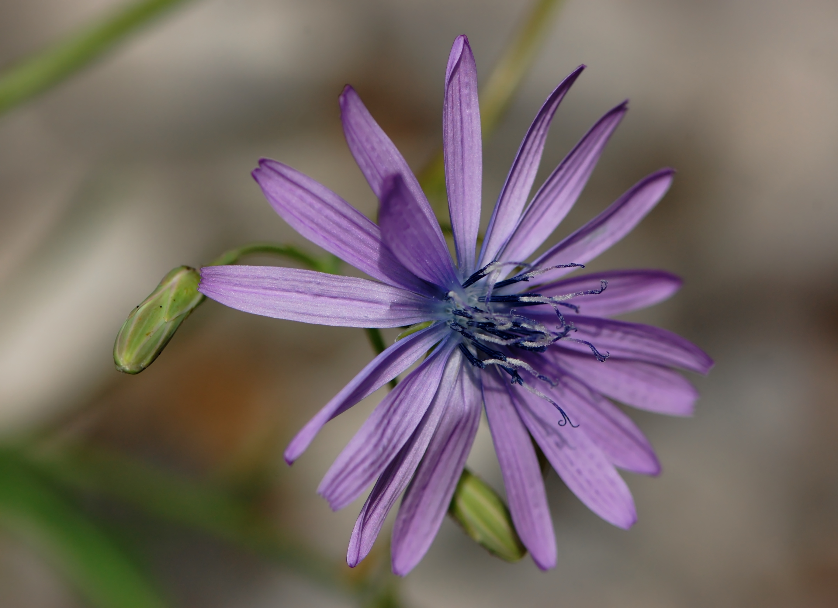 Flower of Lactuca perennis in Carsiana botanical garden in Sgonico, Italy.